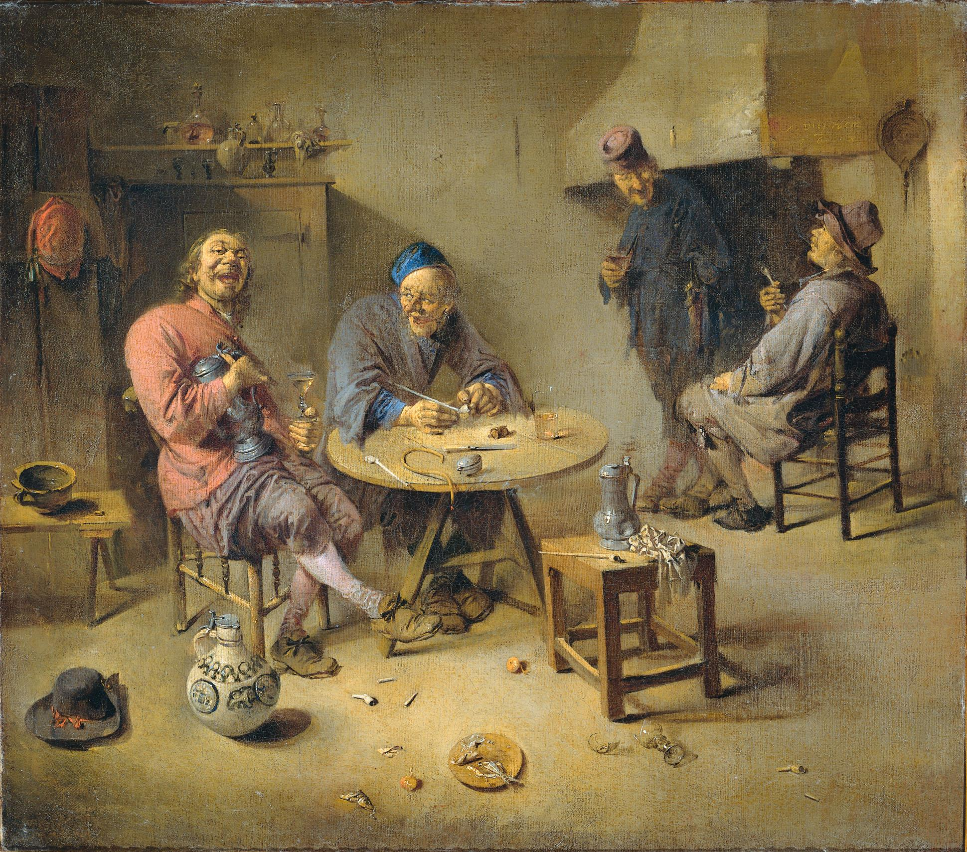 Interior of an inn with two smoking, drinking and singing men at the table. On the floor a stoneware jug. Towards the background two figures are standing beside the fireplace, one holding a glass, the other a pipe. Genre works